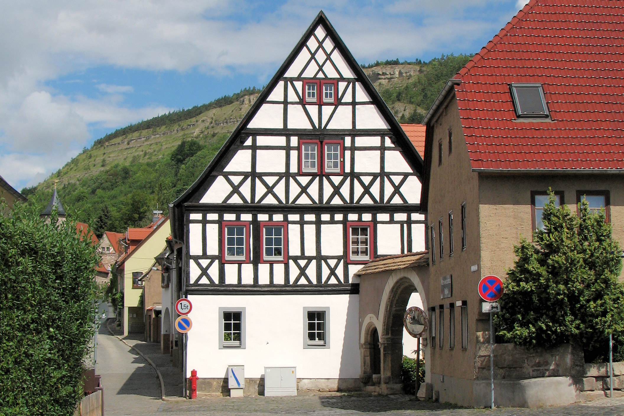 Dobermanns residentual house